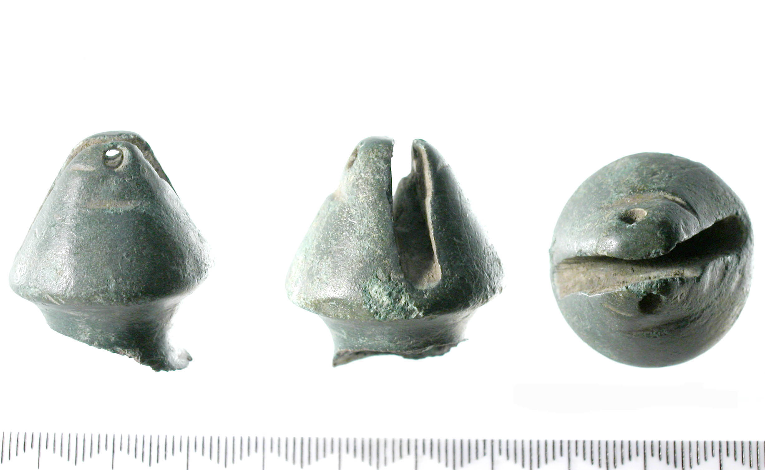 An incomplete copper-alloy crest-holder from a Roman legionary helmet ('Coolus' type) of the 1st century AD. The complete terminal of this holder is conical in shape, with a base diameter of 26mm and measuring 25mm in height. There is a central slot across the it, which is rectangular in shape with rounded corners, measuring 4mm in width and 10mm in depth. At the tip of the holder, which is divided in two by the slot, there are two opposing circular perforations, measuring 3mm in diameter. Below these perforations there are transverse groves, which appear to have been caused by wear. The conical terminal is waisted and then there is a flared base. This is now broken, it is hollow and circular in cross-section, measuring 18mm in diameter. This flared base was originally attached to the top of the bronze helmet with solder. This crest-holder has been identified by Ralph Jackson of the British Museum and similar examples have also been found at Chichester (Bishop and Coulston 1993, 94-95, fig 58, no 2).